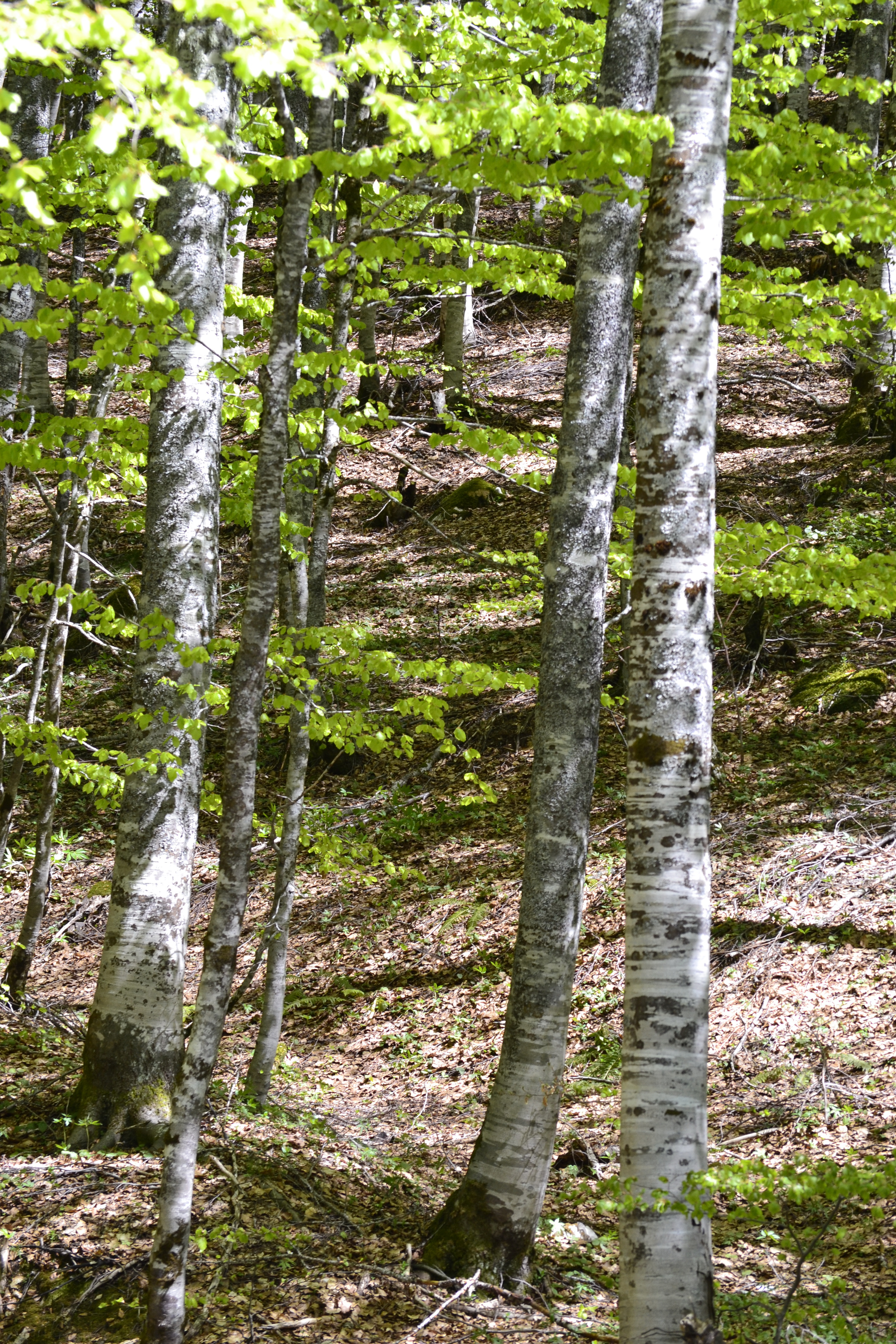 Moesian beech trees